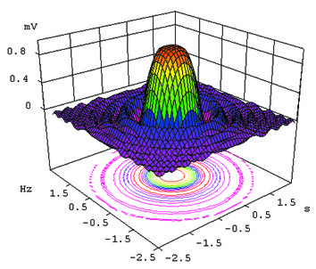 Screen 3d-Plot